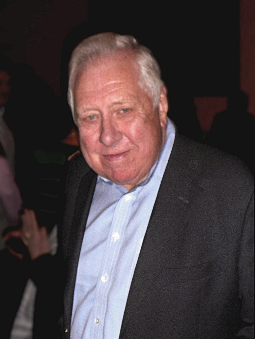 Talk by Roy Hattersley. St. Anne's Church, Baslow, Peak District, Derbyshire, UK